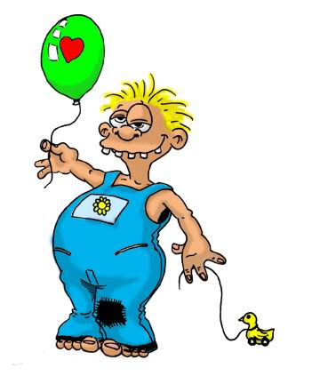 Cartoon of a redneck hillbilly.